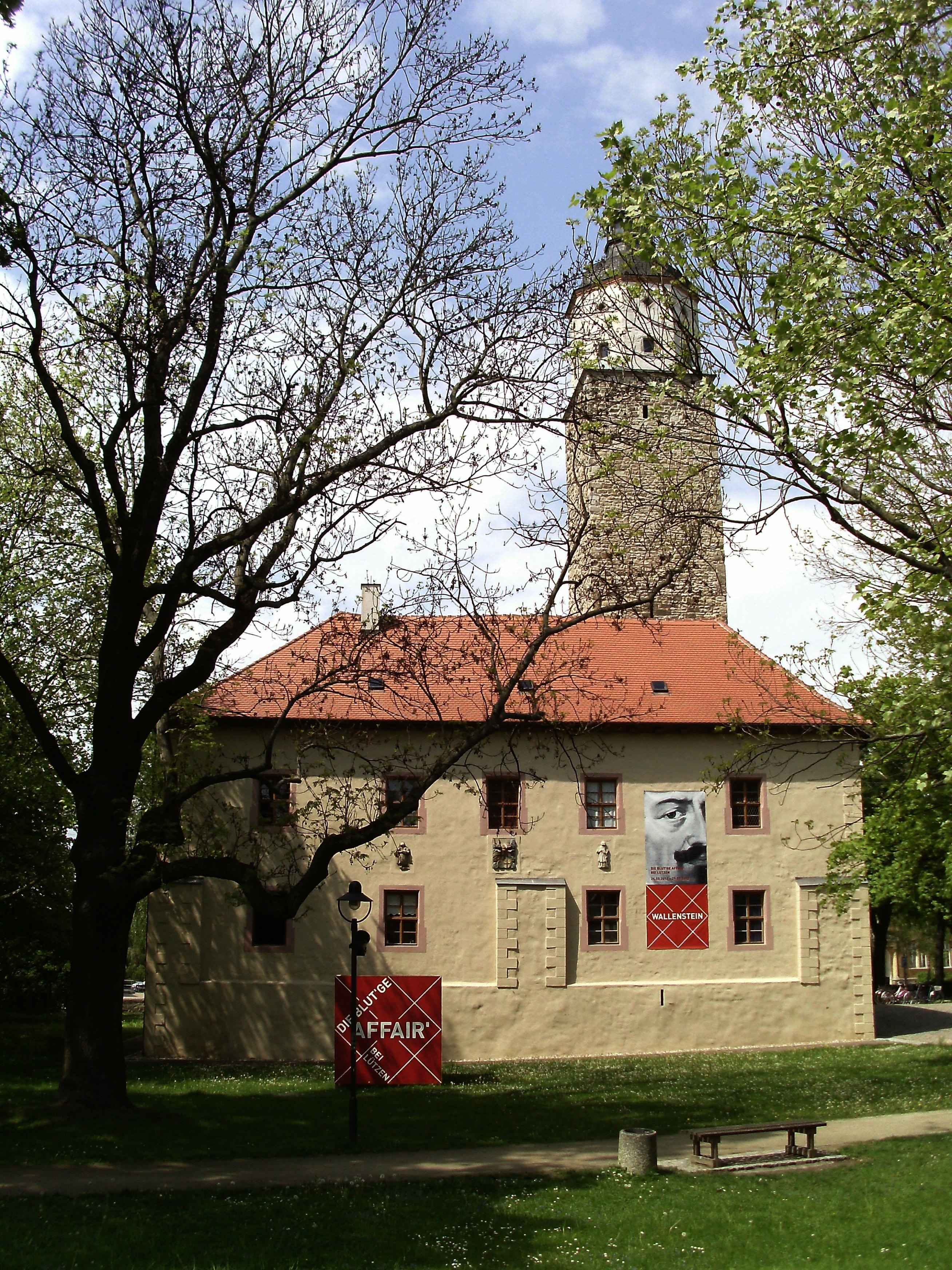 Lützen Castle (district of Burgenlandkreis, Saxony-Anhalt)